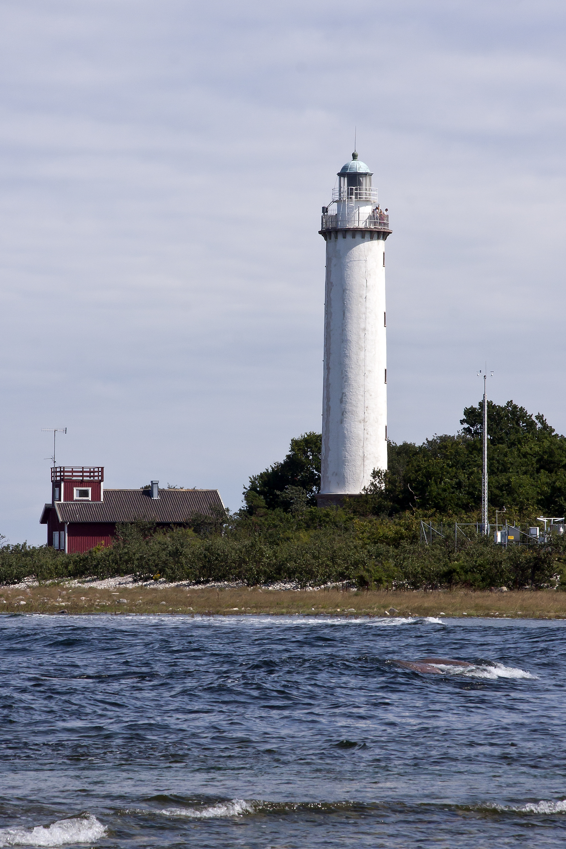 Långe Erik lighthouse at the northern tip of Öland, Sweden.